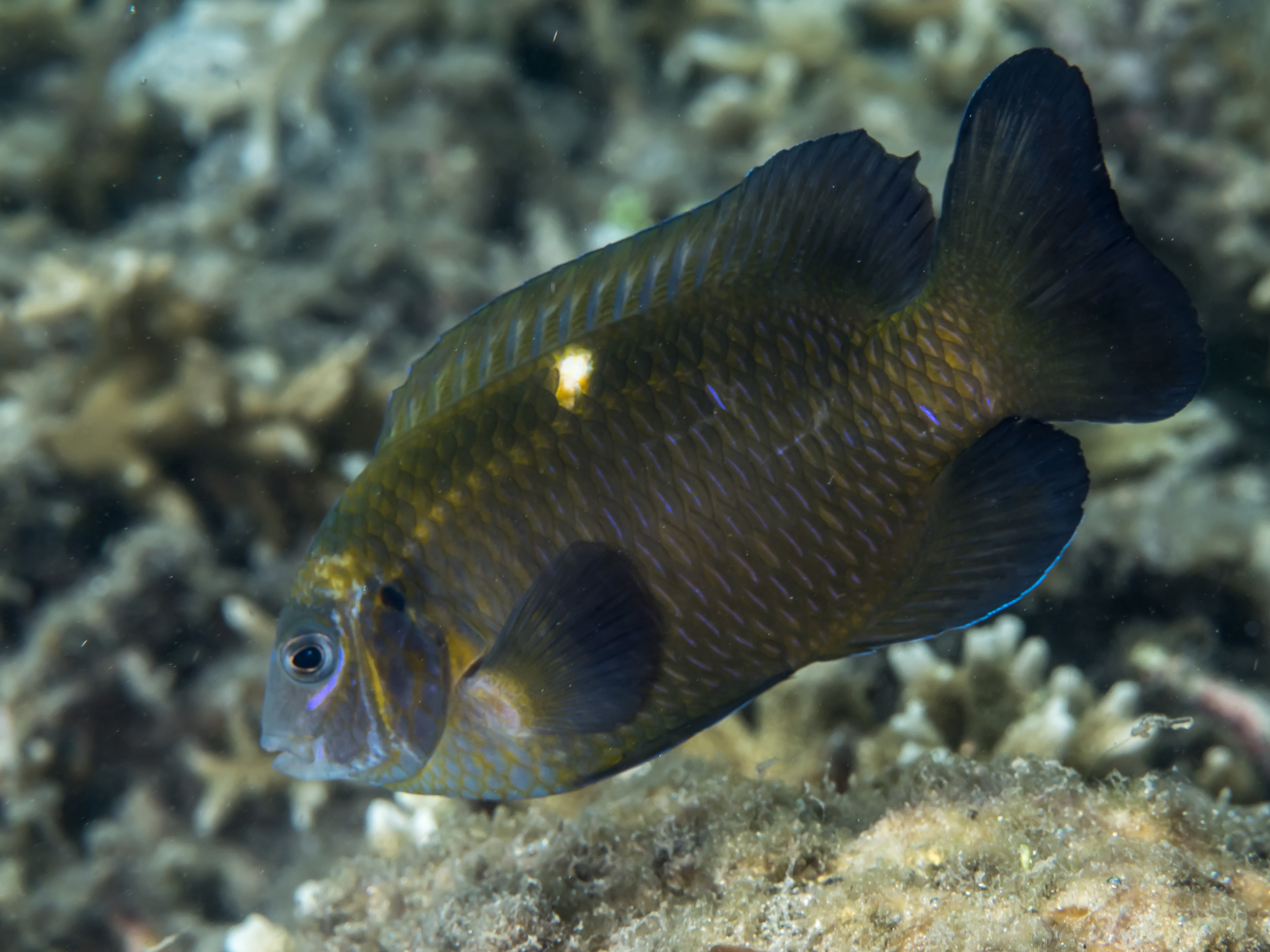 Lembeh, Indonesia - Whitespot damsel juvenile (Dischistodus chrysopoecilus)